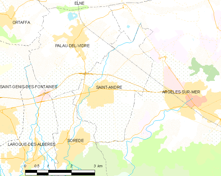 Map of French municipality